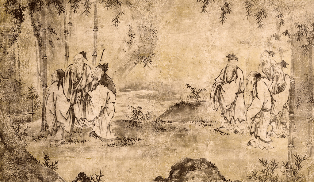 Seikō (Rikō) (2nd half of 16th century), The Seven Sages of the Bamboo Grove. Muromachi period, Hanging scroll; ink on paper, 31.2 x 53.7 cm